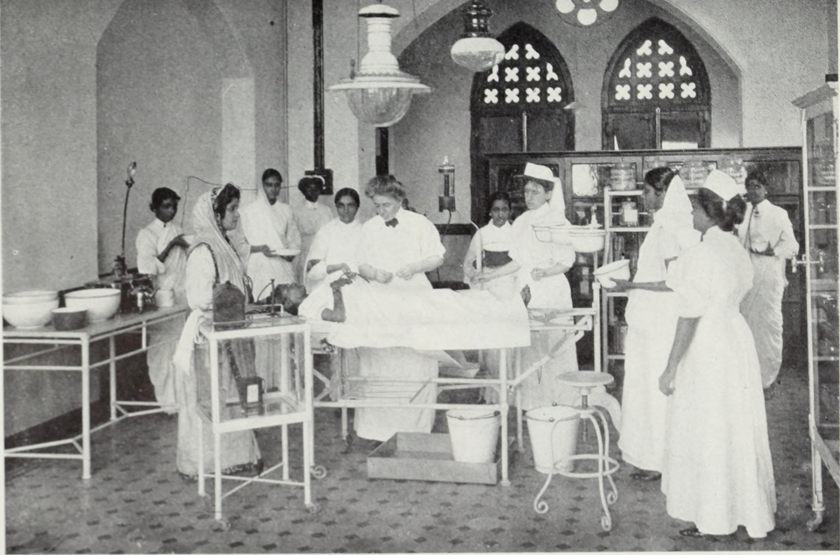 Title: A history of nursing: the evolution of nursing systems from the earliest times to the foundation of the first English and American training schools for nurses Year: 1912 (1910s) Authors: Nutting, M. Adelaide (Mary Adelaide), 1858-1948 Dock, Lavinia L., 1858-1956 Internet Archive (Firm) Subjects: Nursing Publisher: New York London : G.P. Putnam's Sons Text Appearing Before Image: hospital assistant scholarships.Besides this, annual grants were made to medicalstaffs and nursing expenses in a number of cities,as well as a great deal of current outlay of variedkinds. The impetus and definite help given by the fundwas general and varied, and to deal fully with itsextent would far overpass our bounds. In medicalrelief in 1889, twelve hospitals for women and fifteendispensaries, most of which were officered by women,were more or less closely connected with the associa-tion. Many were the new enterprises, private andprovincial, that responded to the stimulus thus given,and many were the localities that undertook themaintenance of some branch of relief under the fund.Ever watchful of the best development of her plan,Lady Dufferin wrote in 1888: I should like in this place to remind those who haveundertaken to benefit their state or their district by es-tablishing one of these institutions, that they must thinkni the future as well as of the present, and that they must Text Appearing After Image: — 3